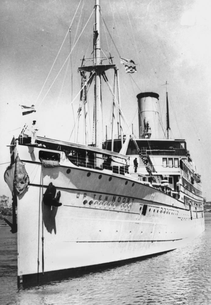 Op Ten Noort (ship)